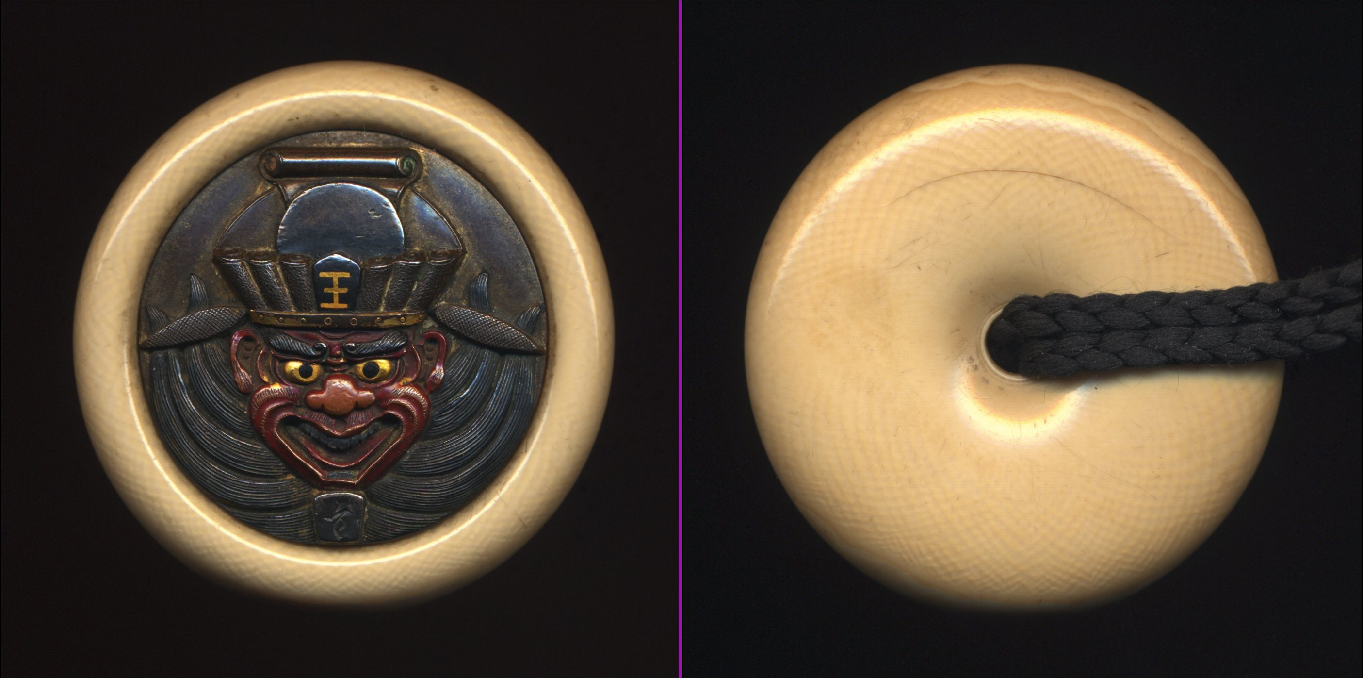 This 19th century kagamibuta netsuke depicts Emma Dai O, the King of Hell. The bowl is ivory; the disk is shakudo decorated with other gold and copper alloys. Overall diameter: 1.9" (48mm); thickness: 0.5" (13mm).